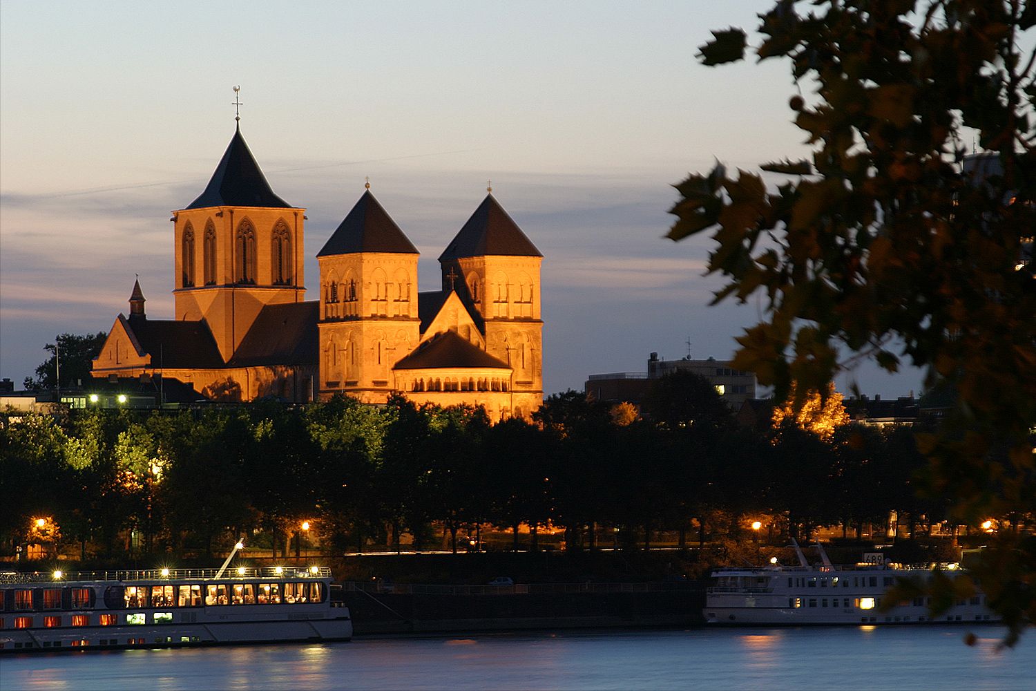 Roman church St. Kunibert, Cologne, Germany